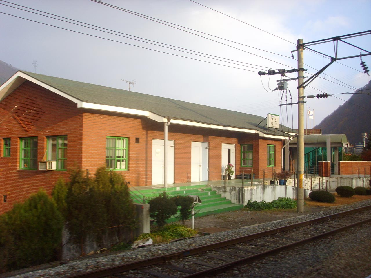 Baeksan Station (Yeongdong Line, Taebaek Line, Baeksan-dong, Taebaek-si, Gangwon-do, South Korea